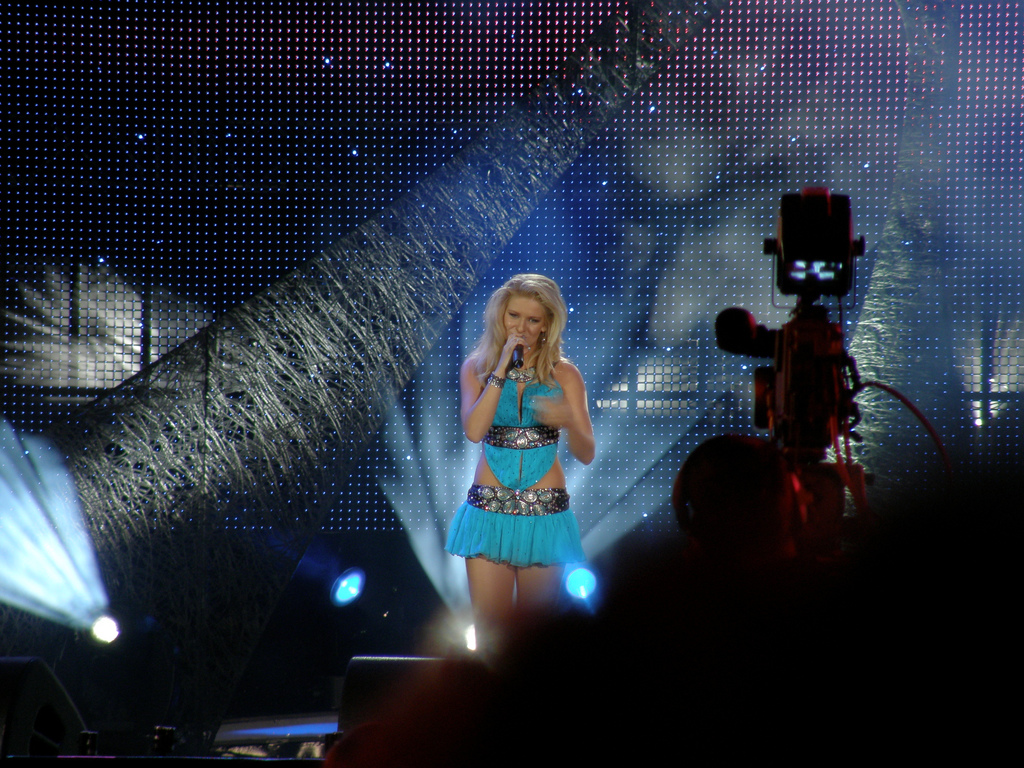 Artist "Alexa" from Moldova, singing at the Cerbul de Aur 2008 festival in Braşov, Romania.